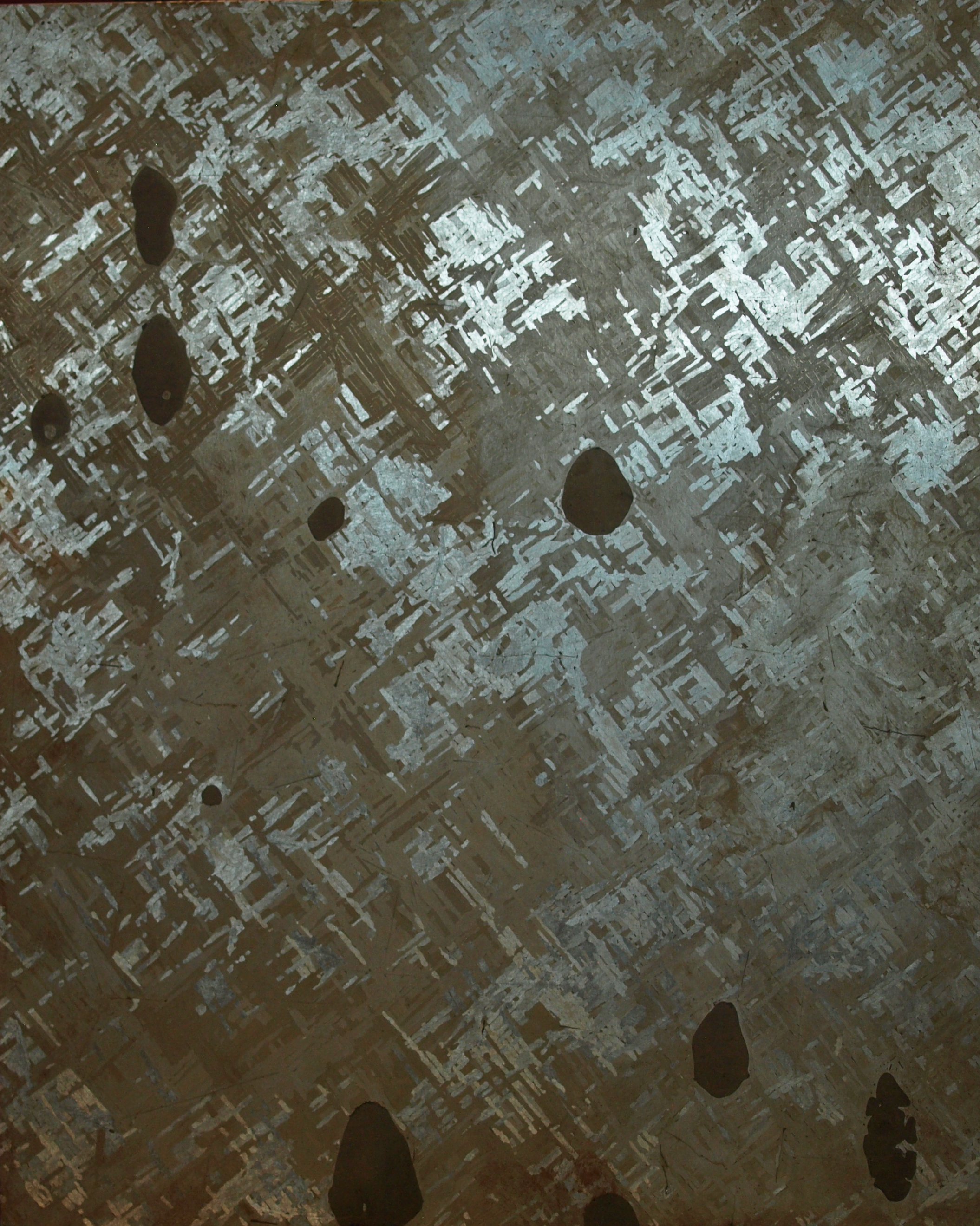 Detail of an Iron OM-IIa meteorite from Cape York, Greenland, retrieved in 1818. On display at the Naturhistorisches Museum, Vienna.